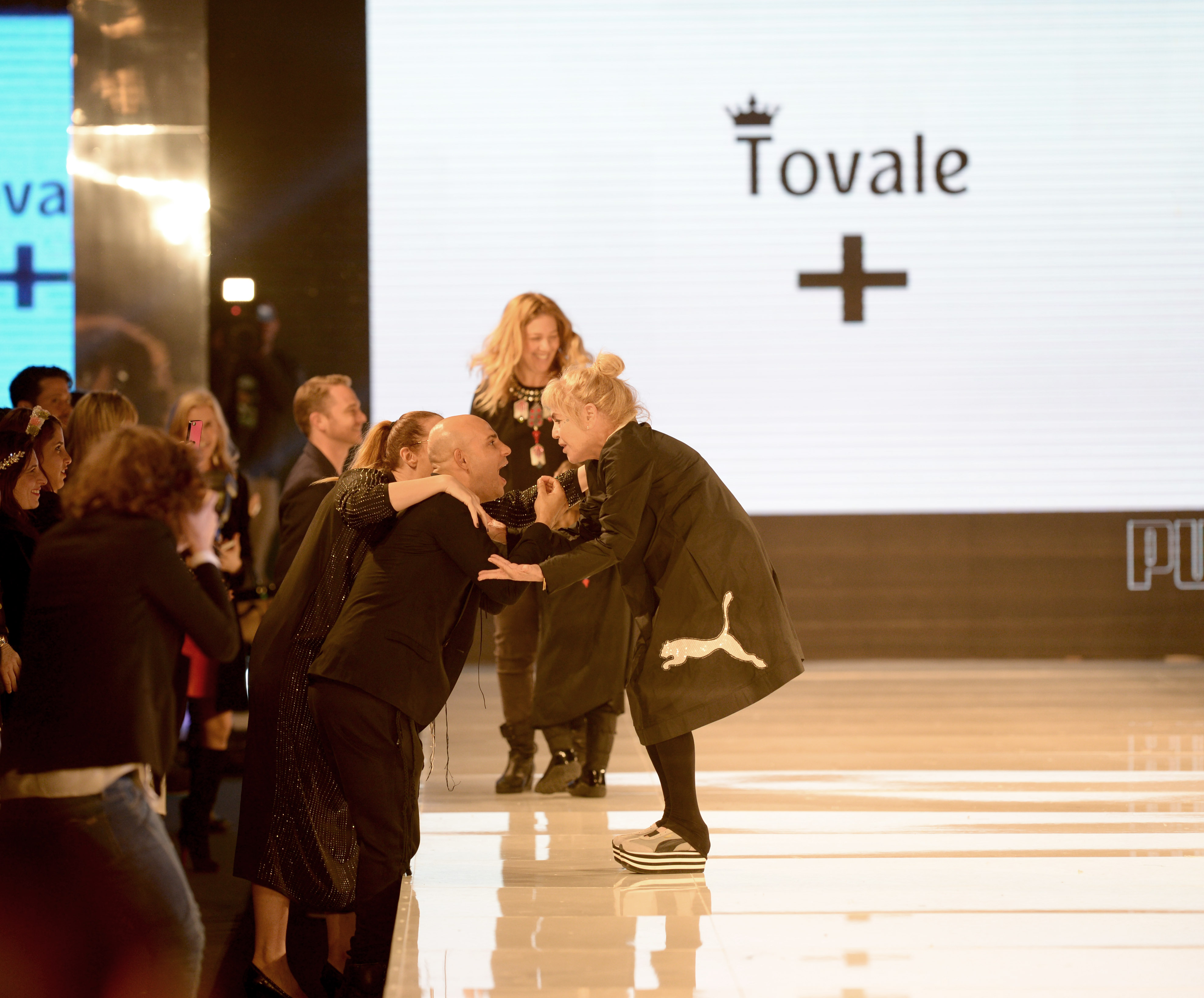 The designer of the Tovale brand Tova Hasin receives compliments from the crowd at her fashion show which collaborated with the Puma sports brand, during fashion week at the TLV Fashion Mall in Tel Aviv.